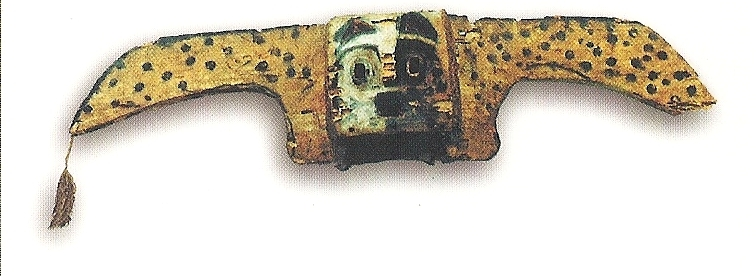 Bodi gabonese traditionnal mask from the Mahongwe ethny